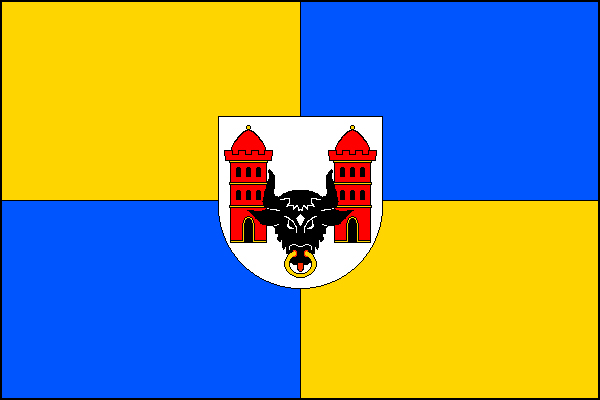 Municipal coat of arms of Přerov town, Czech Republic.